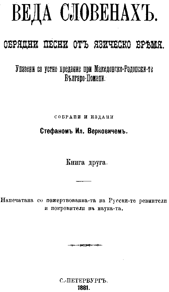 Cover of the second volume of Veda Slovena, issued in 1881 in St Petersburg.